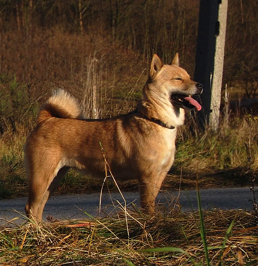 Hokkaido from the kennel HAKUGETSU, the owner - Katarzyna Jabłońska.